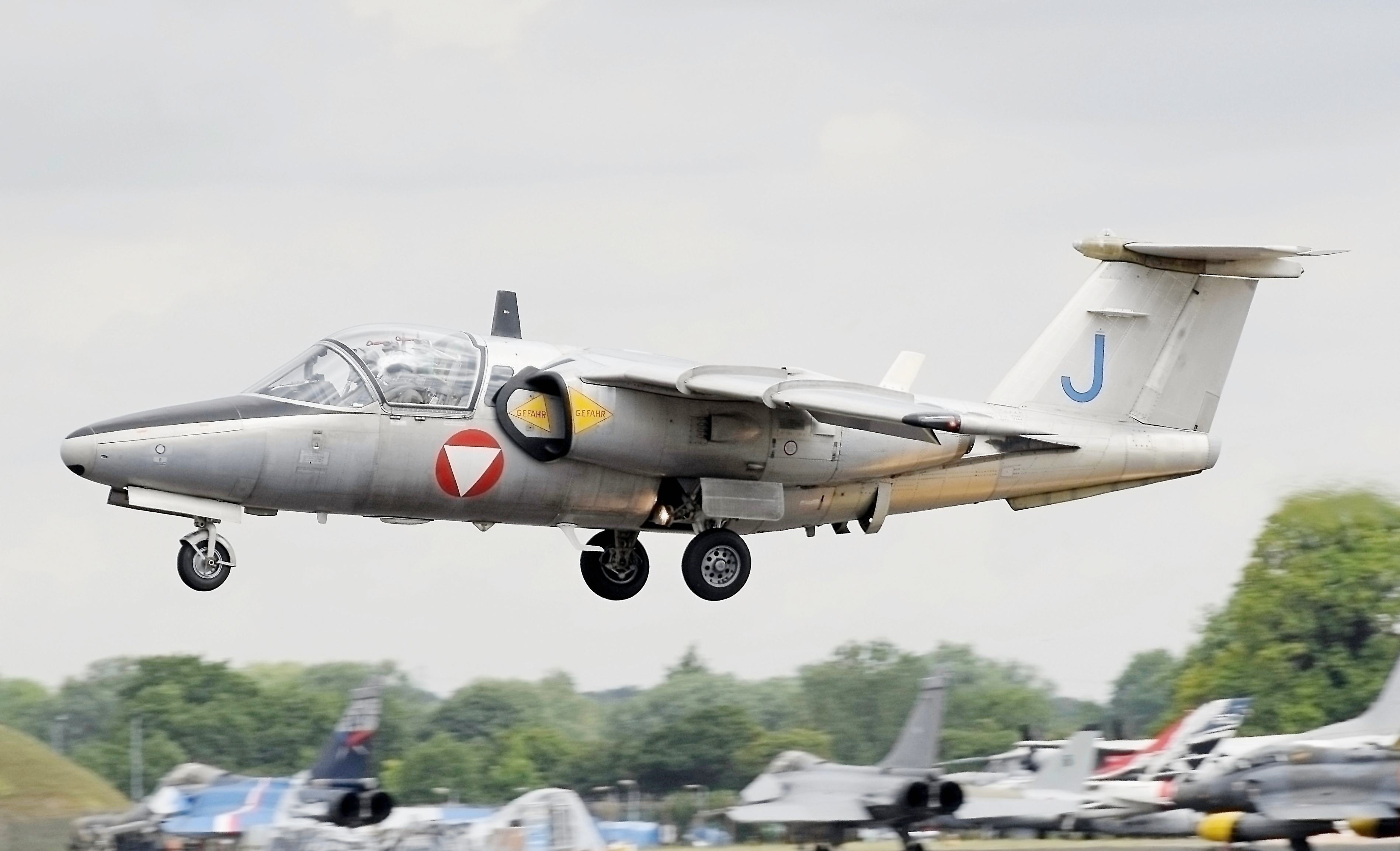 Saab 105 Oe trainer (registration J) of the Austrian Air Force at the 2017 Royal International Air Tattoo, RAF Fairford, England.